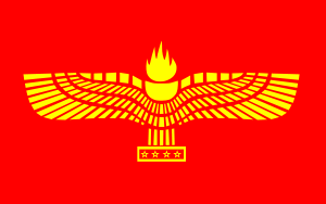 Aramean Flag